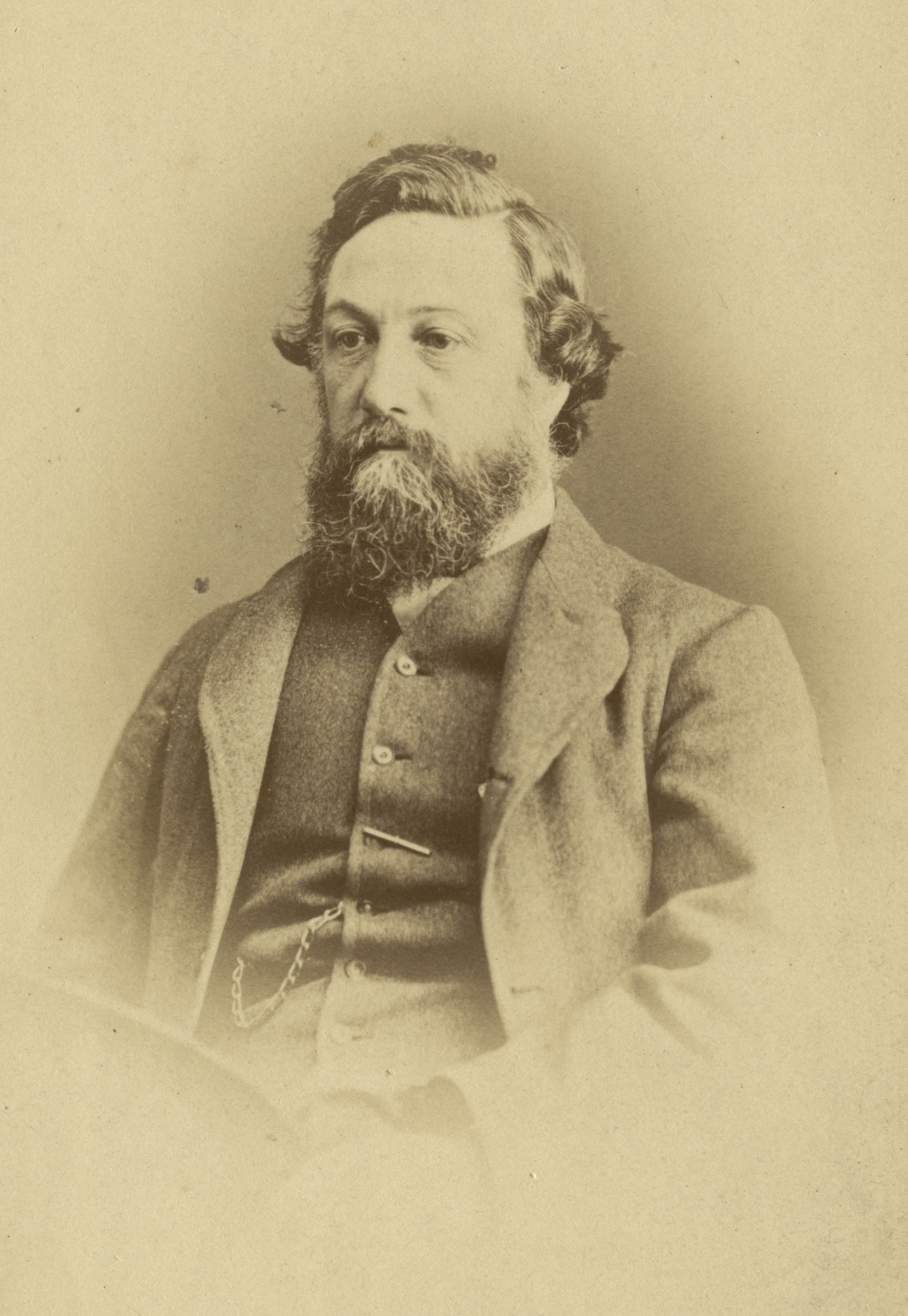 Portrait of Oswald Curtis, MHR and Superintendent of Nelson